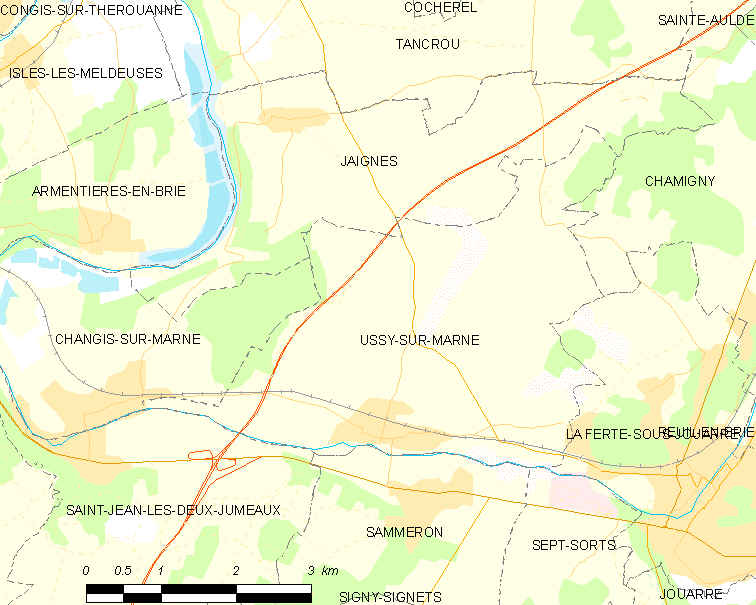 Map of French municipality Ussy-sur-Marne